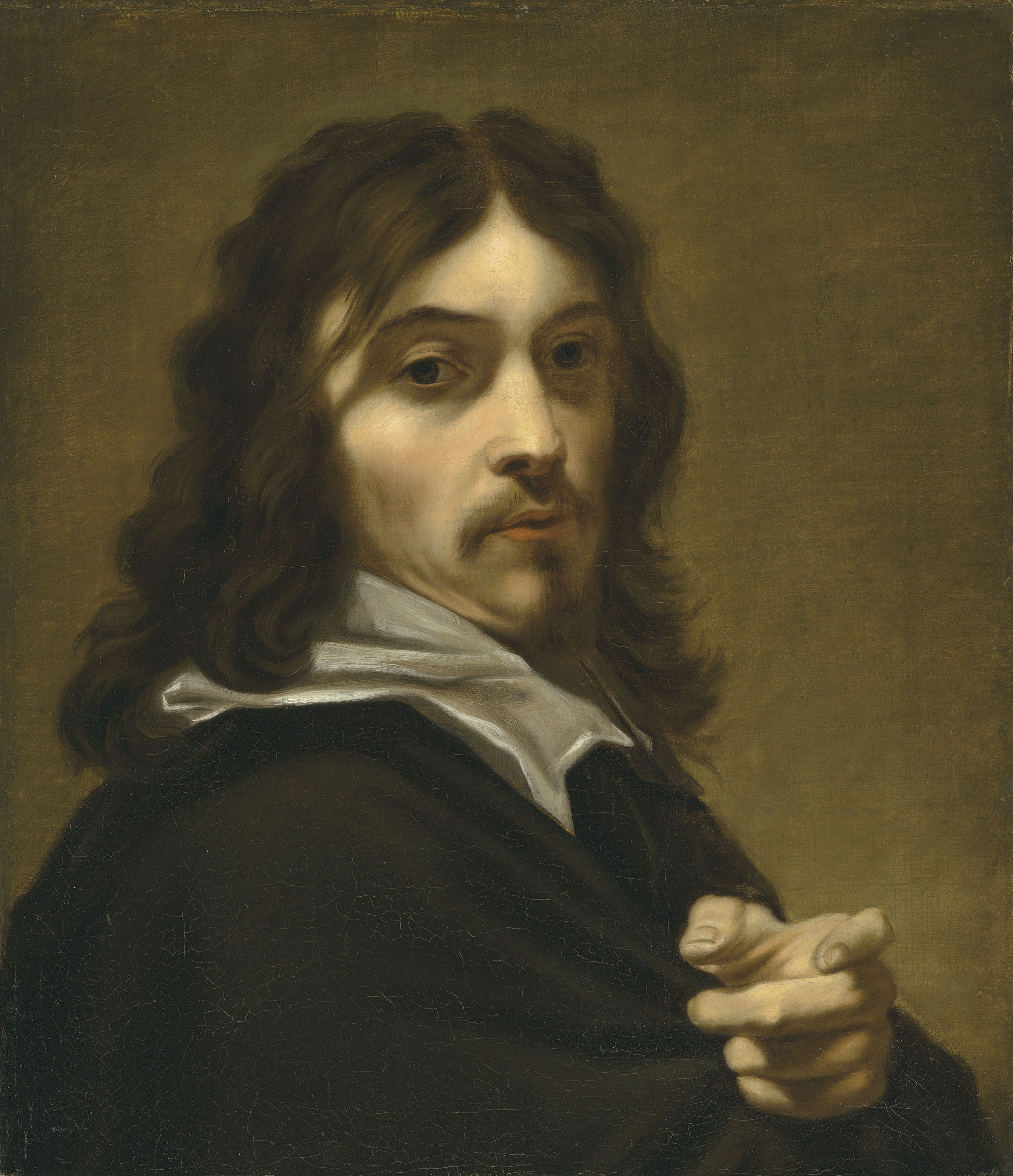 Georg Pfründt (1603-1663)